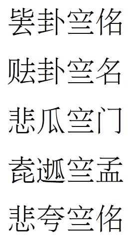 Comparison of the same Zhuang phrase as written in 5 modern sources. Unicode characters: 𭆛卦𭓨佲, [⿰贝去]卦𭓨名, 悲瓜𭓨门, [⿱去比]𮞖孟, 悲夸𭓨佲.